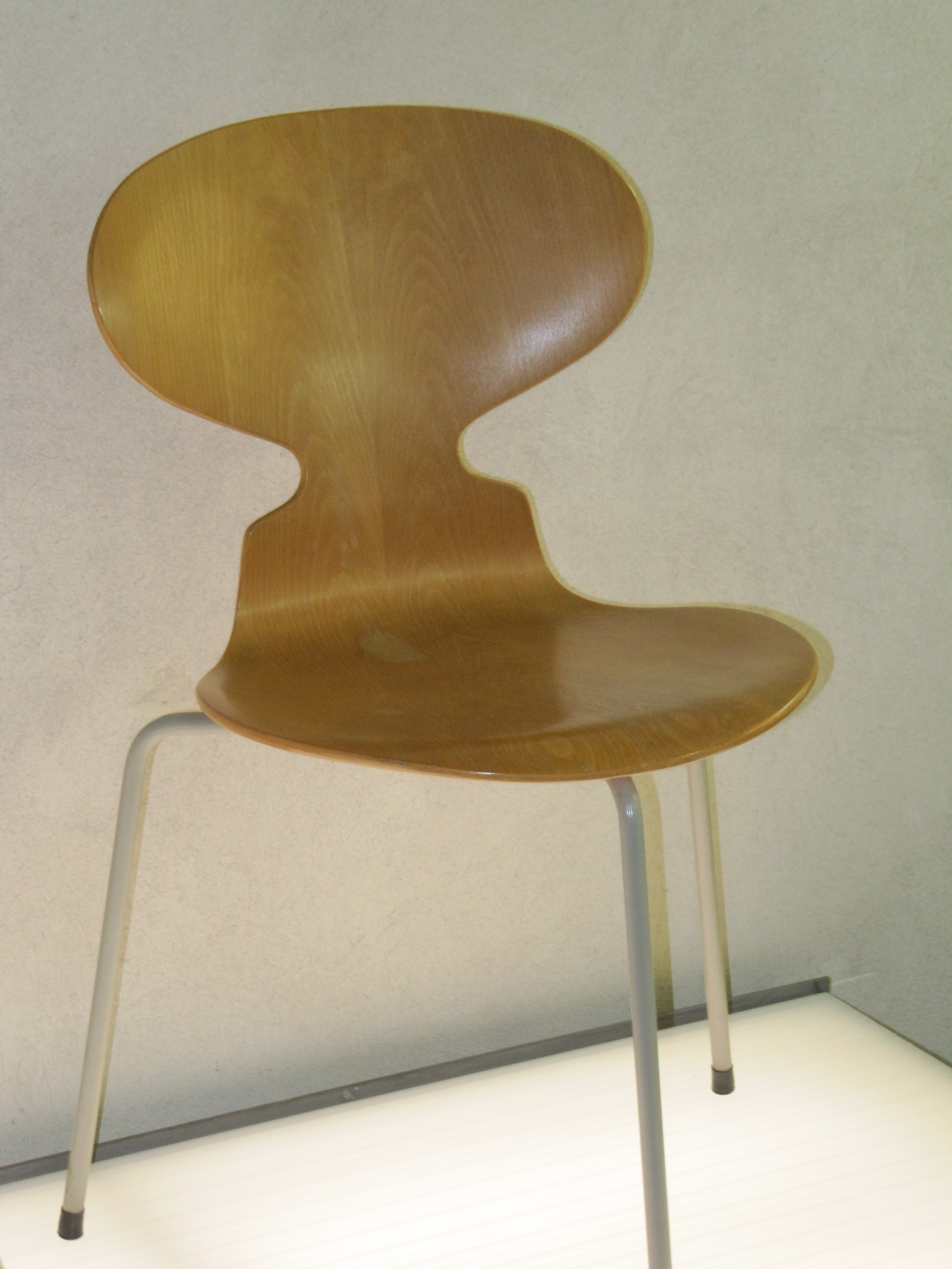 First ant chair 00 with 3 legs on display in Design Museum Denmark. After Fritz Hansen died the chair was made with 4 legs Ant 01.